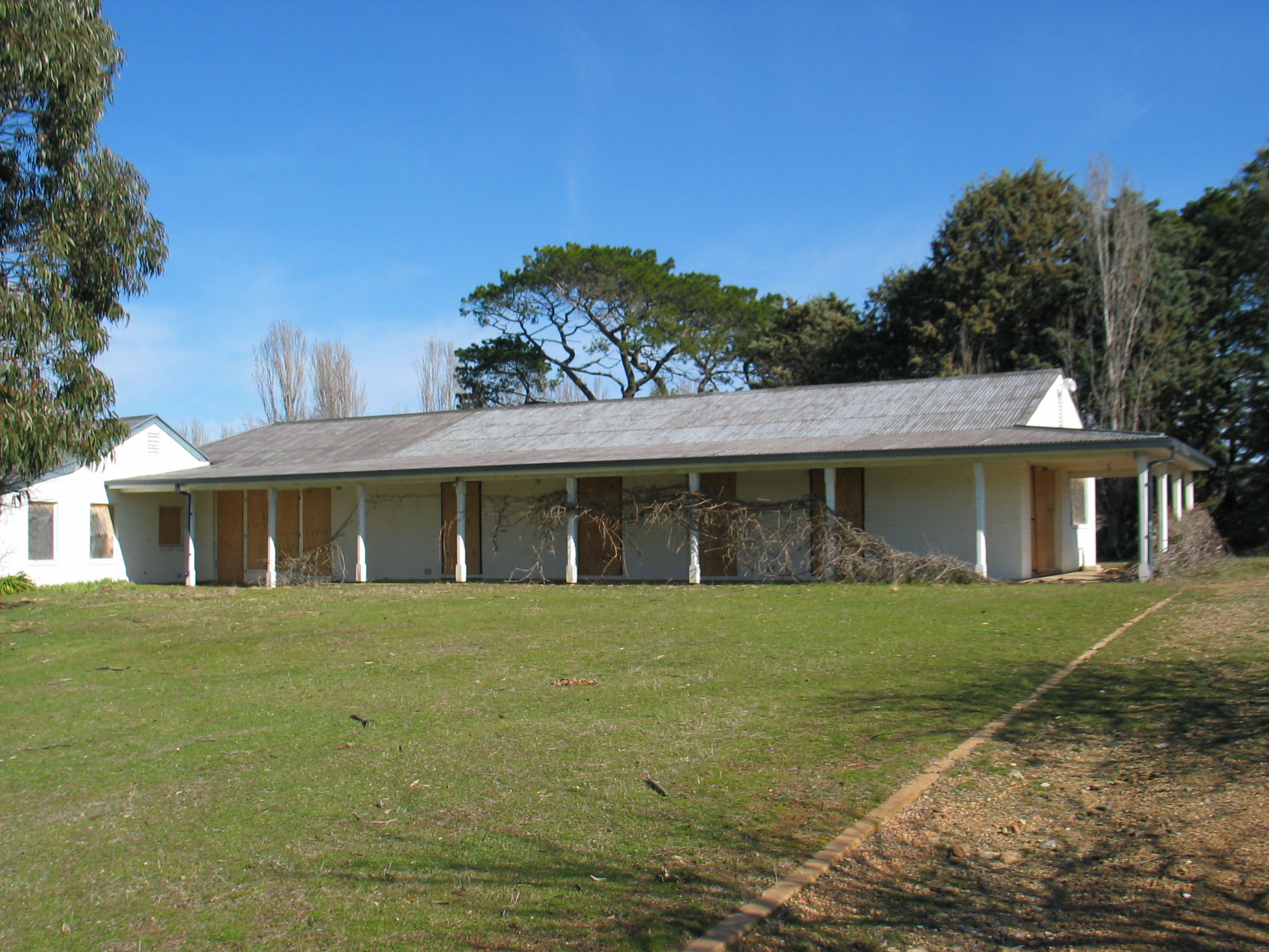 View of Gold Creek Homestead in Ngunnawal, Australian Capital Territory (ACT)